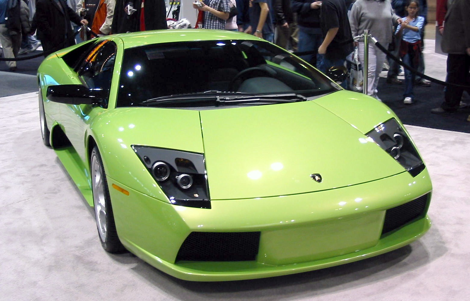 Lamborghini Murcielago at the 03 Chicago Auto Show.Murcielago